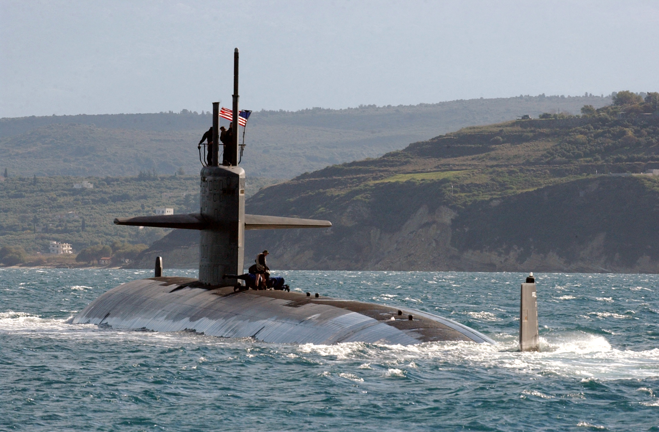 Souda Bay, Crete, Greece (Dec. 16, 2003) – The Los Angeles class nuclear-powered attack submarine USS Memphis (SSN 691) heads out to sea following a brief port visit at Souda Bay, Crete, Greece. U.S. Navy photo by Paul Farley. (RELEASED)